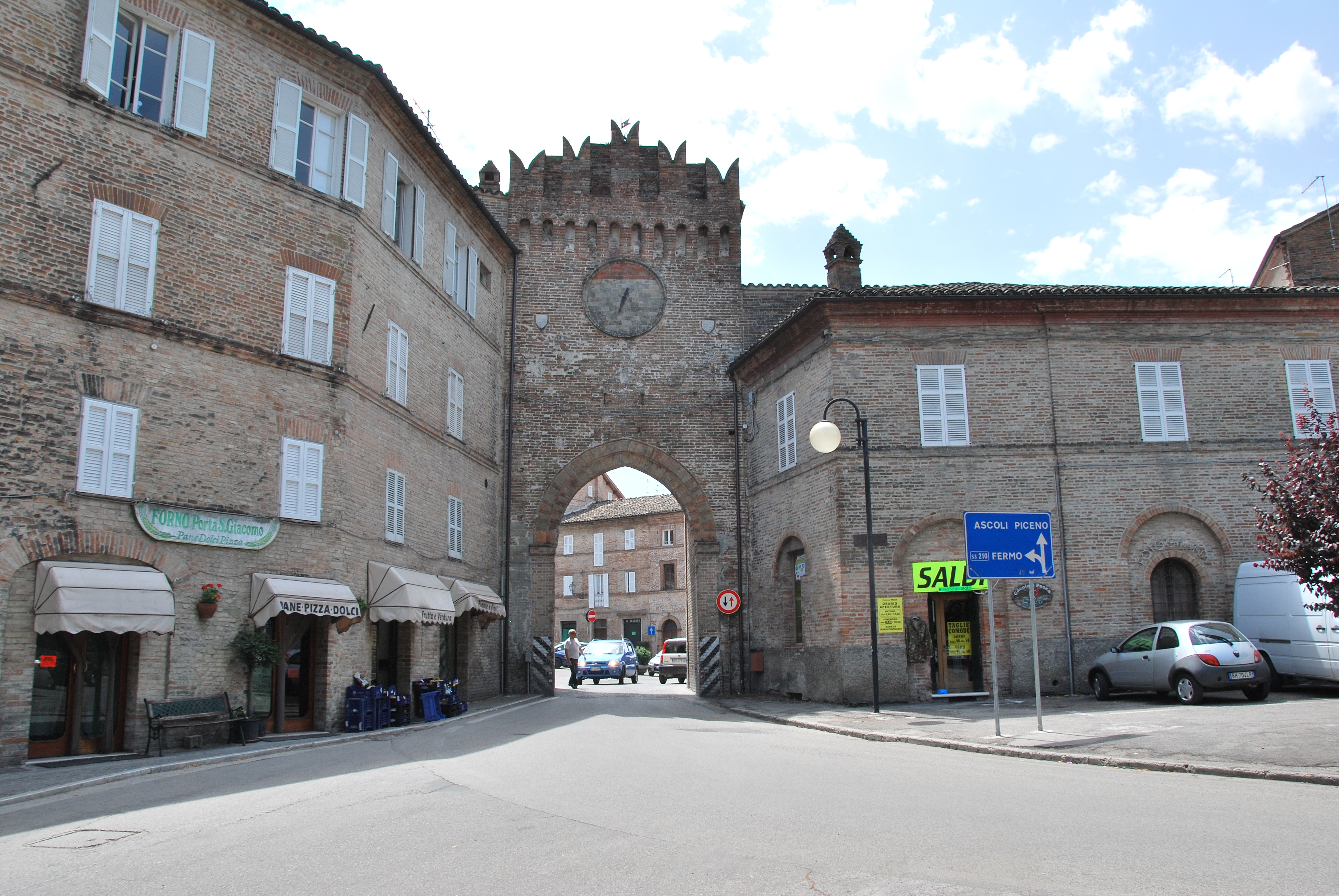 Gate in Amandola